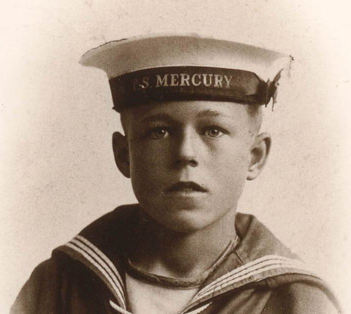 Claude Choules, 14 year old new recruit to the RAN's TS Mercury